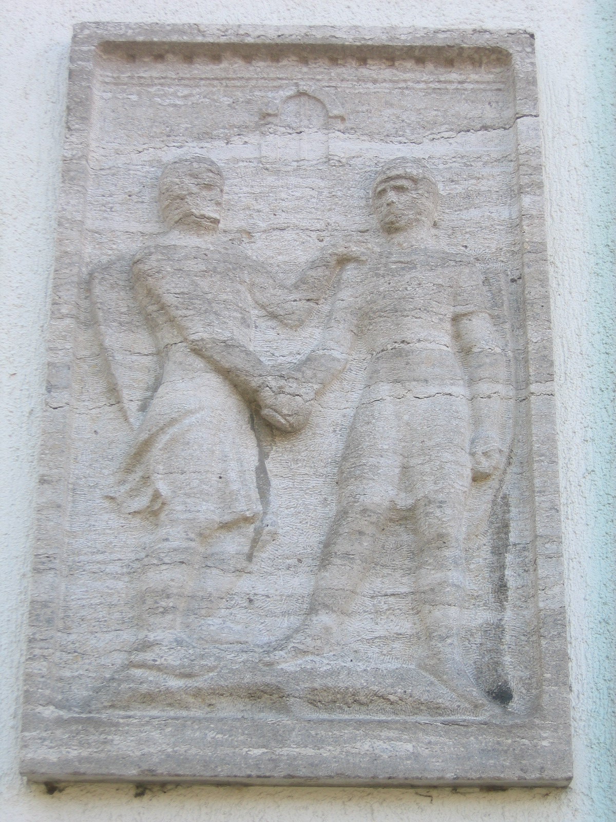 in Bünde, District of Herford, North Rhine-Westphalia, Germany.